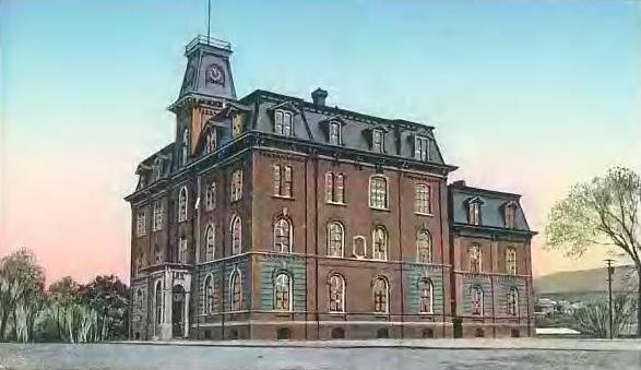 Drury High School, North Adams, MA; from a c. 1906 postcard. Named for Nathan Drury, the building was completed in 1867.